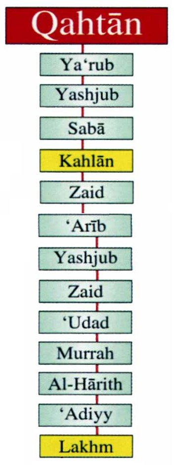 A genealogy of the Banu Lakhm.